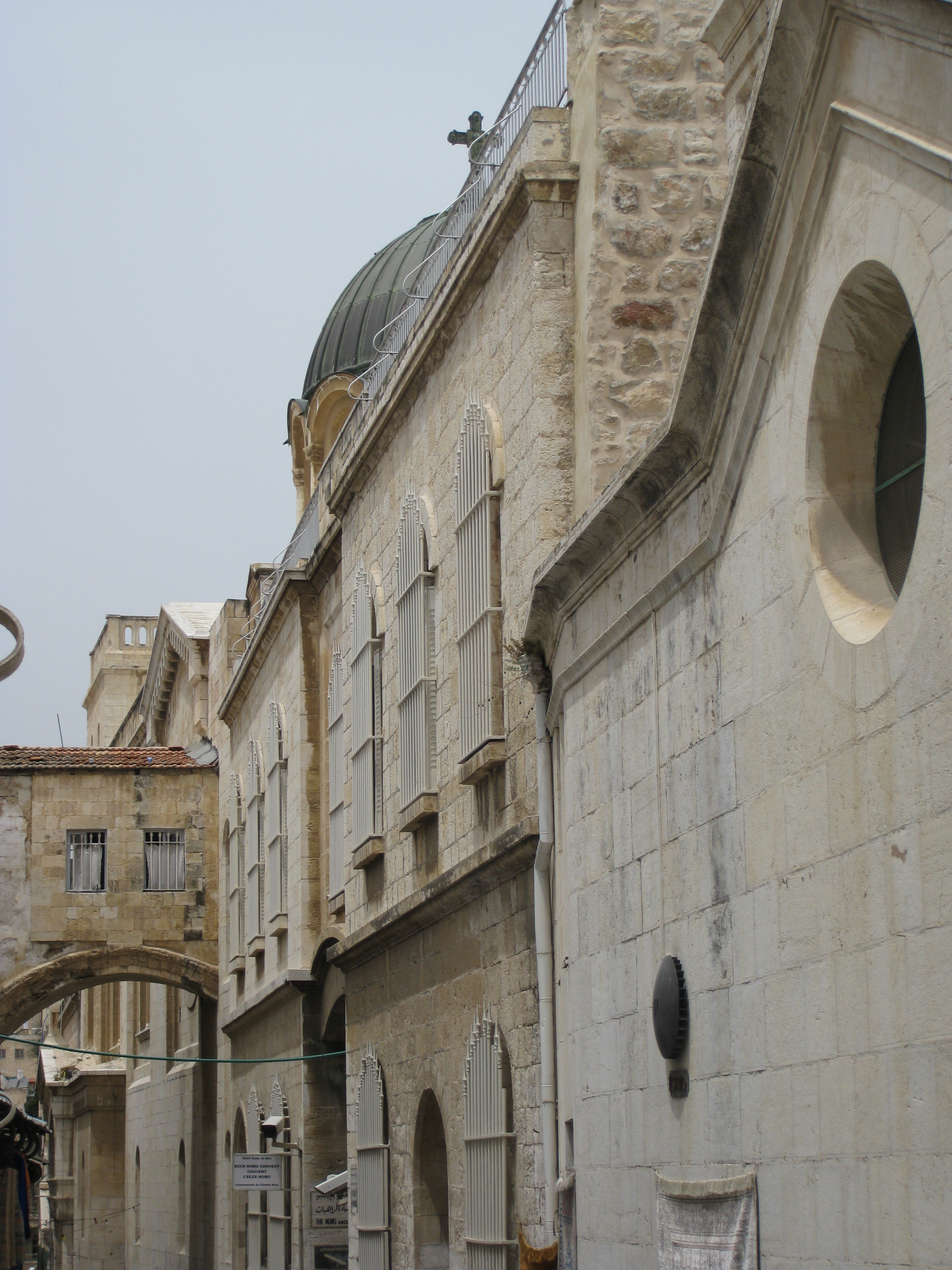 Old Jerusalem, Muslim Quarter - Church of the Condemnation and Imposition of the Cross, and grey dome of the sisters of Sion's convent הרובע המוסלמי בירושלים - כנסיית ההלקאה - התחנה השנייה של הויה דולורוזה